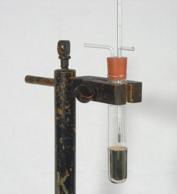 Dewpoint cap according to Regnault